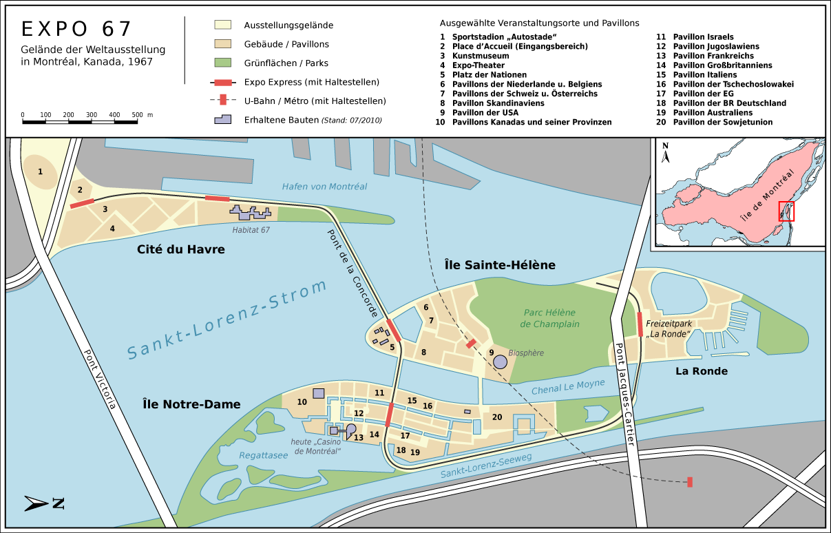 Map of Expo 67 in Montréal, Canada (German Version)